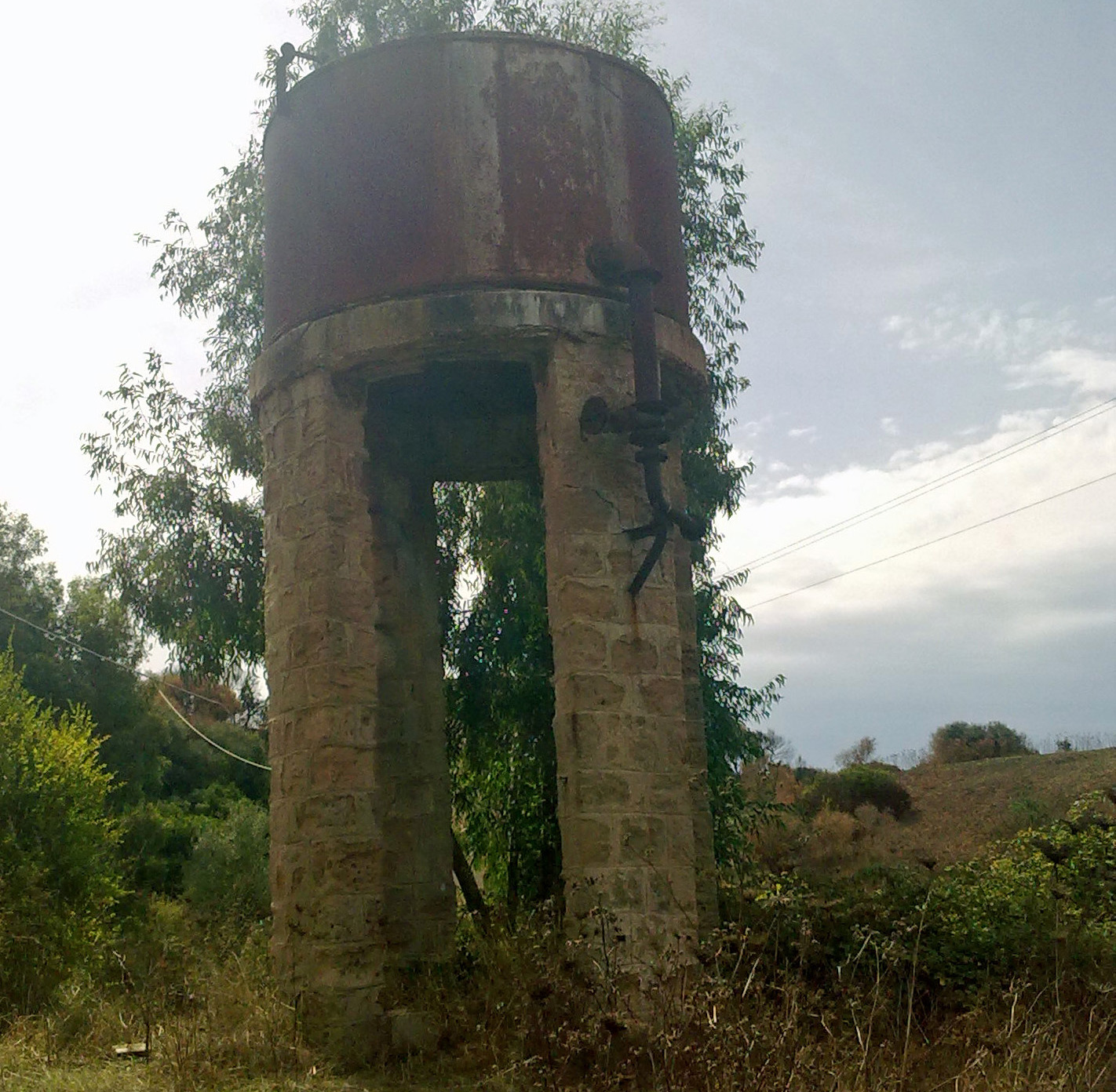 The water tank of the former FMS railway station of Barbusi in Carbonia, Sardinia, Italy, closed in 1974